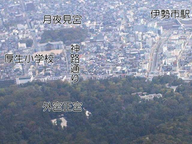 The Betsugu Tsukiyomi-no-miya Sanctuary of Toyoukedaijingu (Geku) and Geku at Ise city, Mie Prf., Japan.